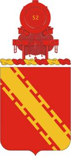 052nd Coast Artillery Regiment Coat Of Arms